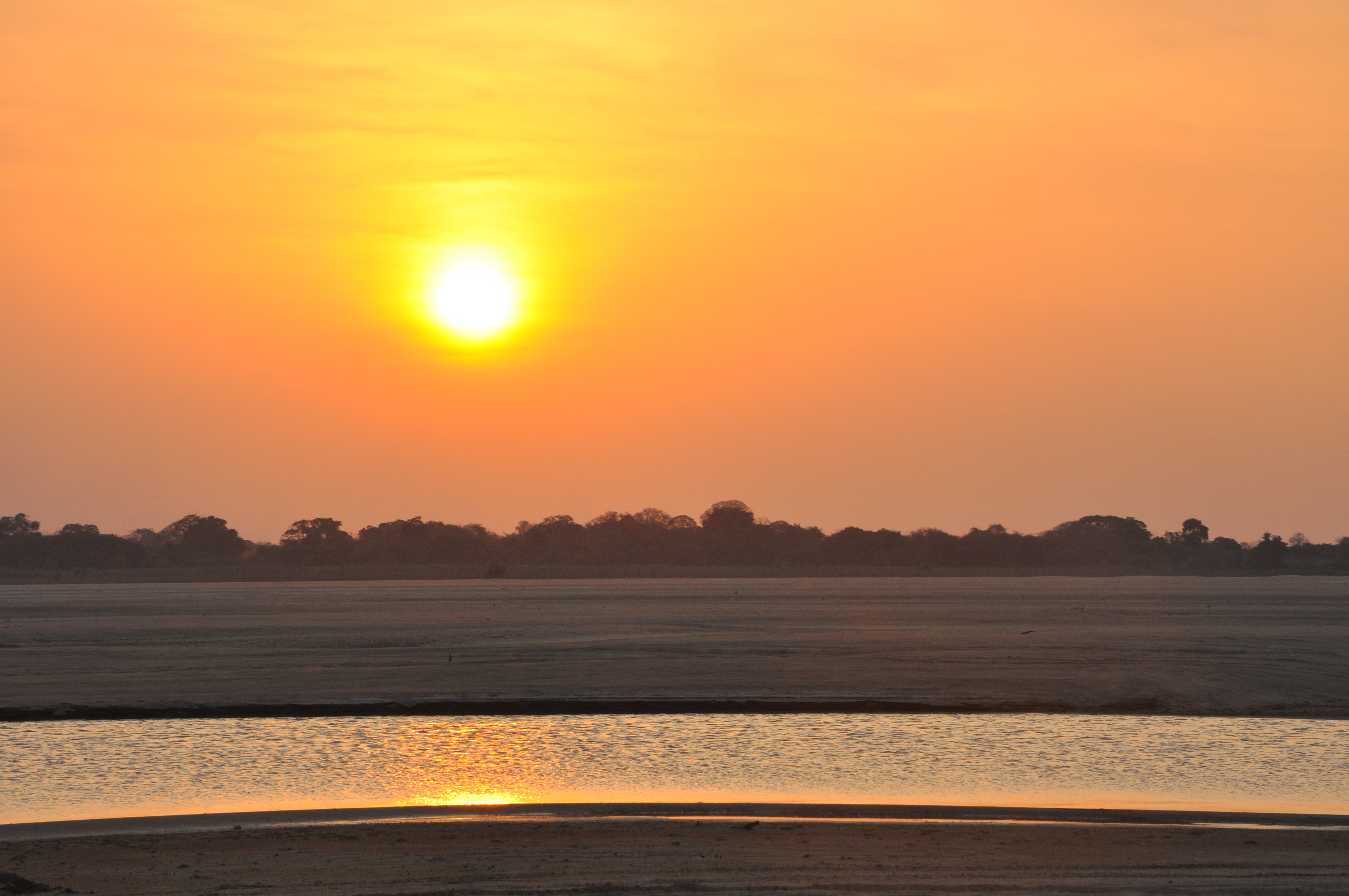 Orinoco river (biggest and largest in Venezuela) at sunset, from Hileros de Parmana